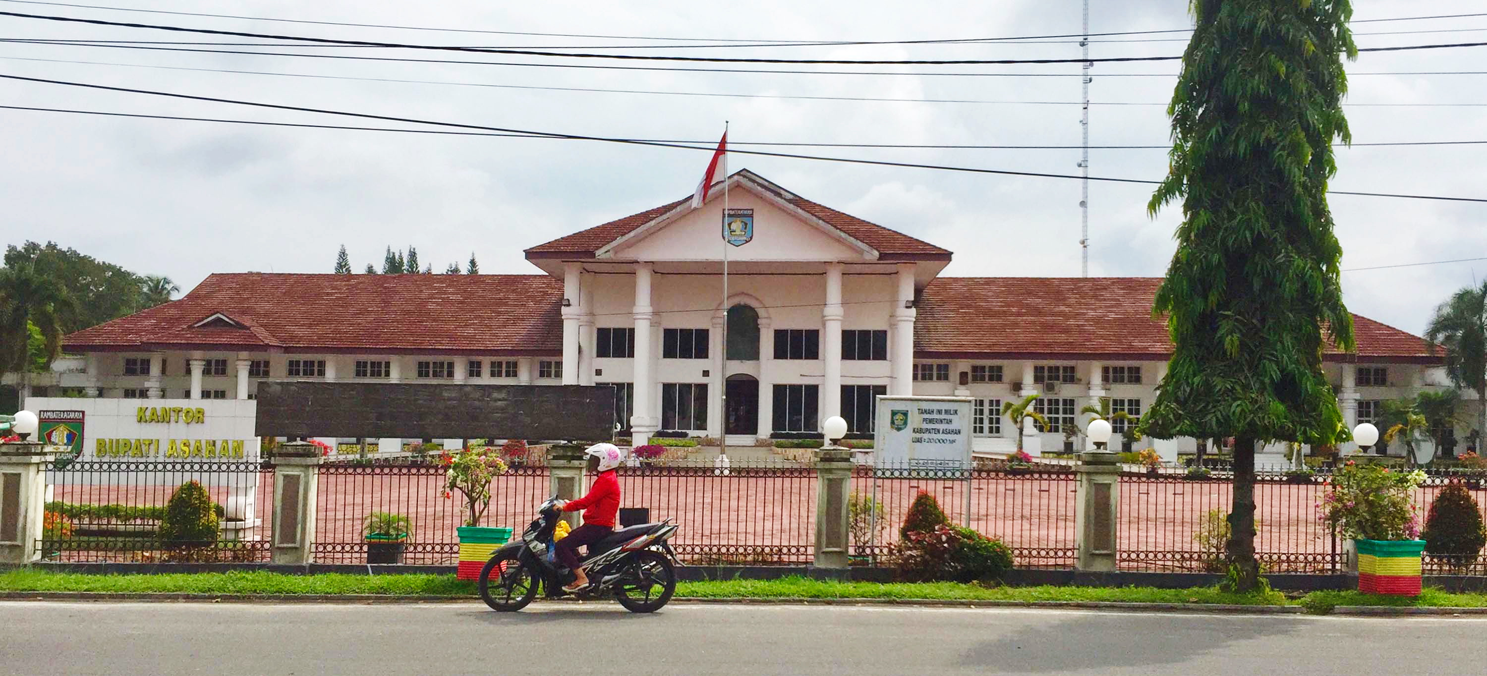 Office of Asahan Regency, North Sumatra